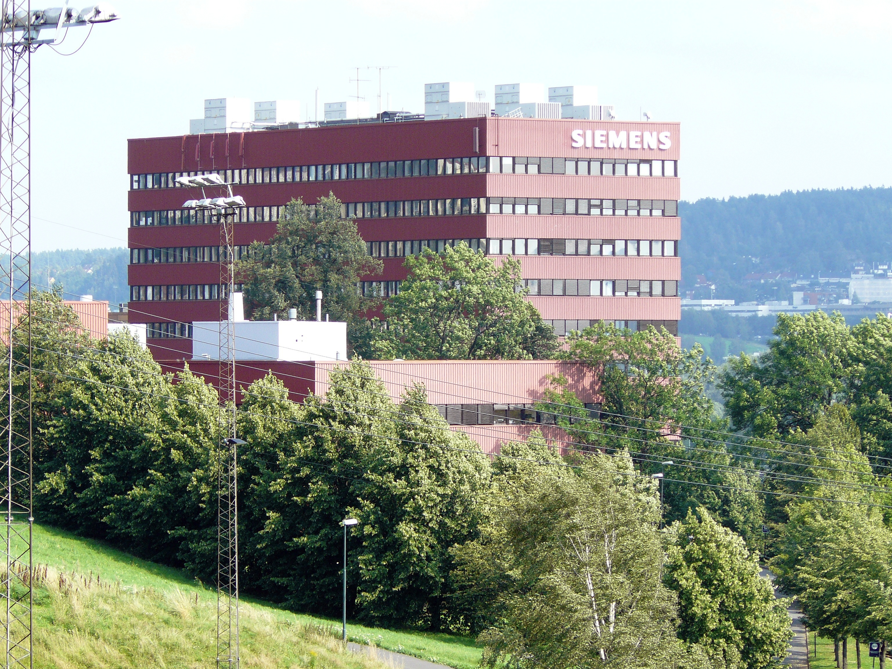 Siemens offices at Østre Aker vei 90, Linderud, Oslo